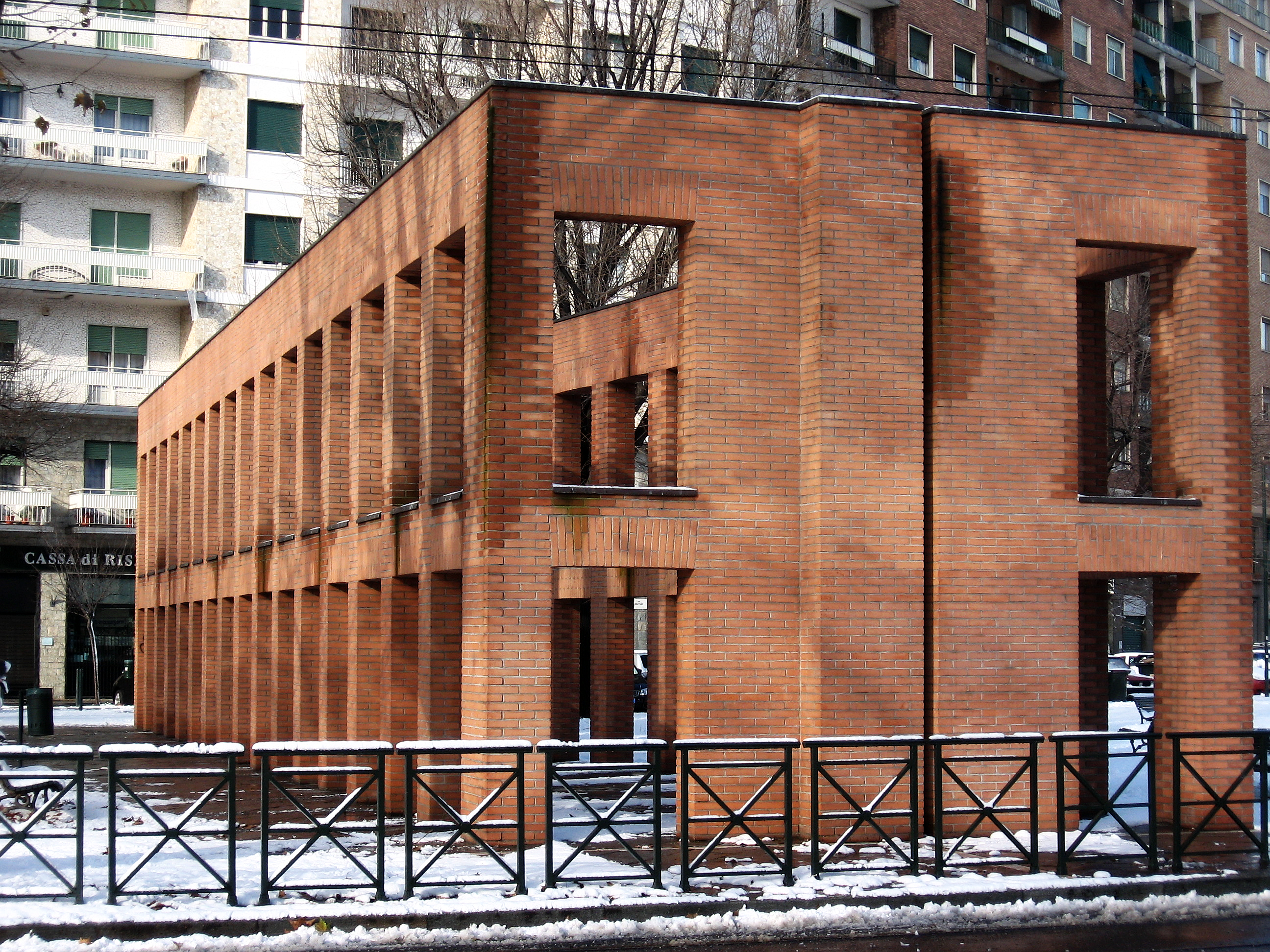 Per Kirkeby, Opera per Torino; Torino, largo Orbassano